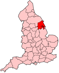 Former administrative county of England